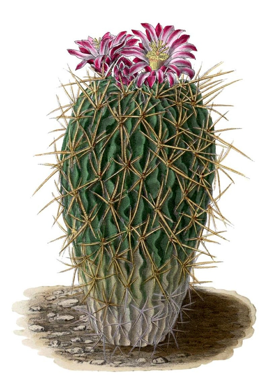 Echinocactus